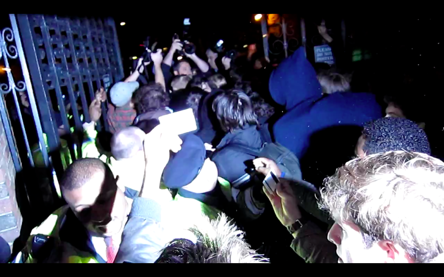 Marchers attempt to enter Harvard Yard in order to establish Occupy Harvard. The gate is becoming crowded as police hold it further. Protesters take pictures and display Harvard identity cards to prove they are students.